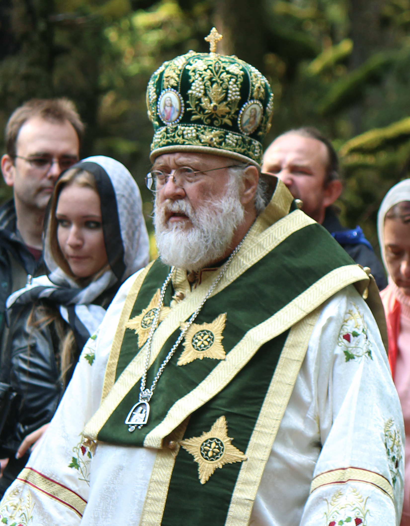 Archbishop Benjamin Peterson, head of the Orthodox Church in America's Alaska diocese, take part in the divine liturgy at the chapel of Saints Sergius and Herman of Valaam Wednesday, August 8, 2012 on Spruce Island. August 8 is St. Herman's feast day (Nicole Klauss photo).